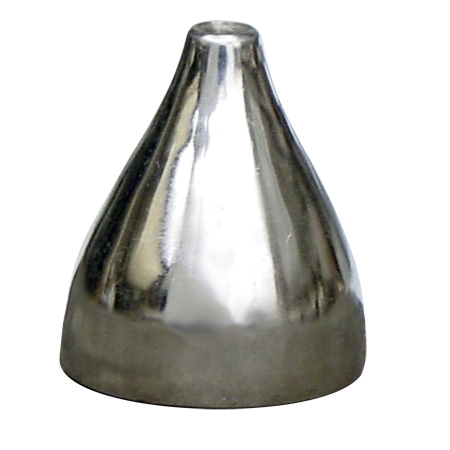 nickel steel alloy